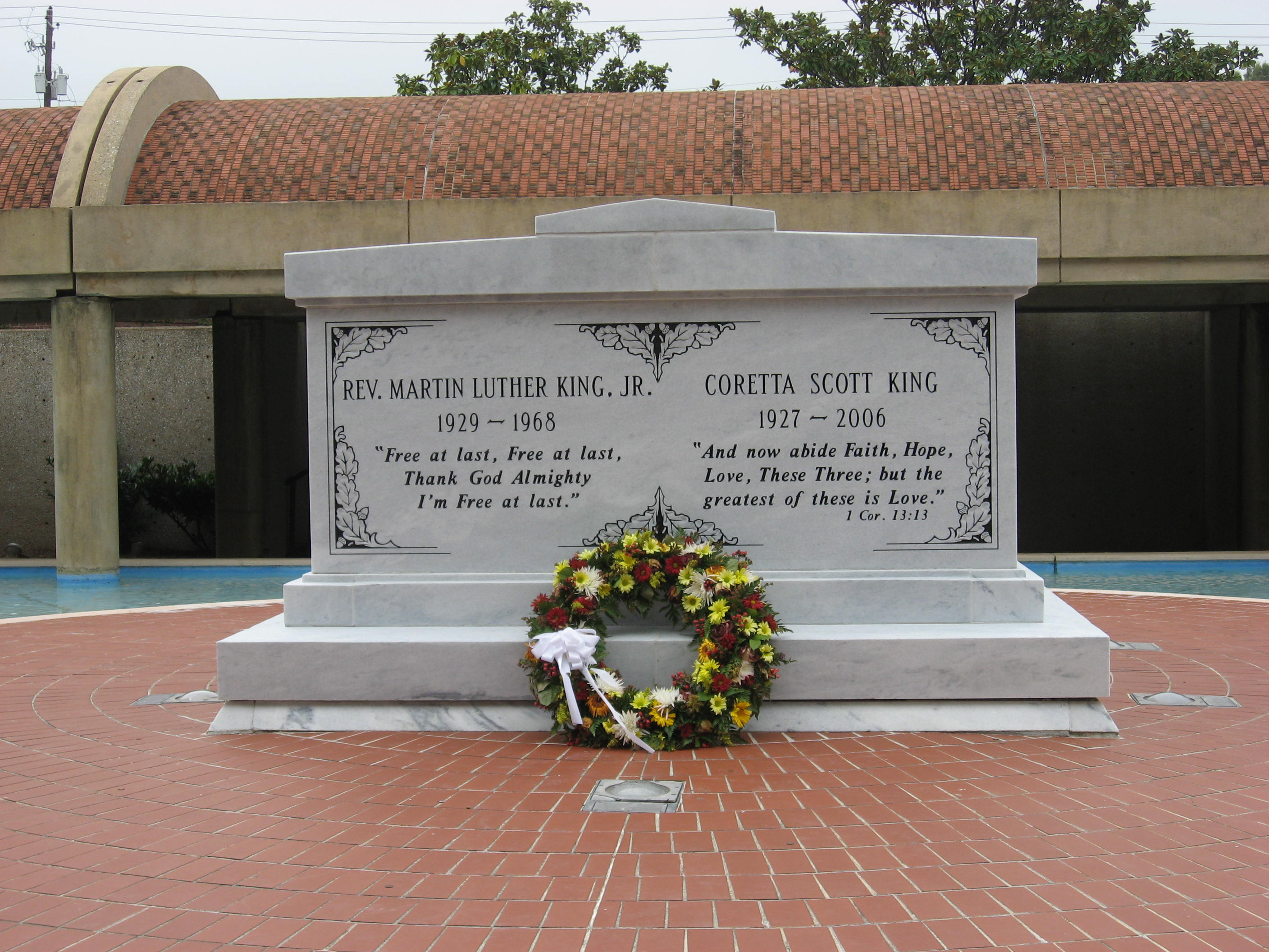 I took this photo from the MLK Historic Site in Atlanta on October 26, 2007.